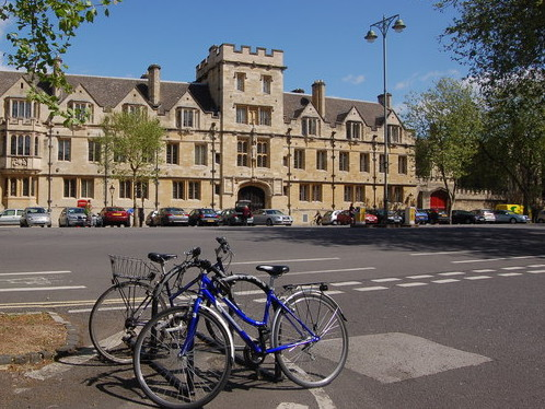 View across St Giles towards St John's College